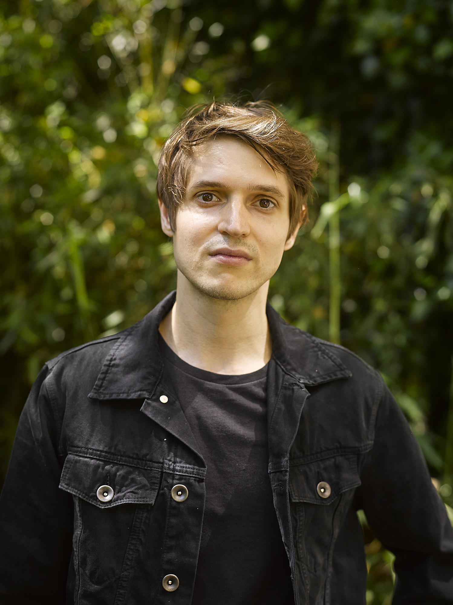 HyperFocal: 0